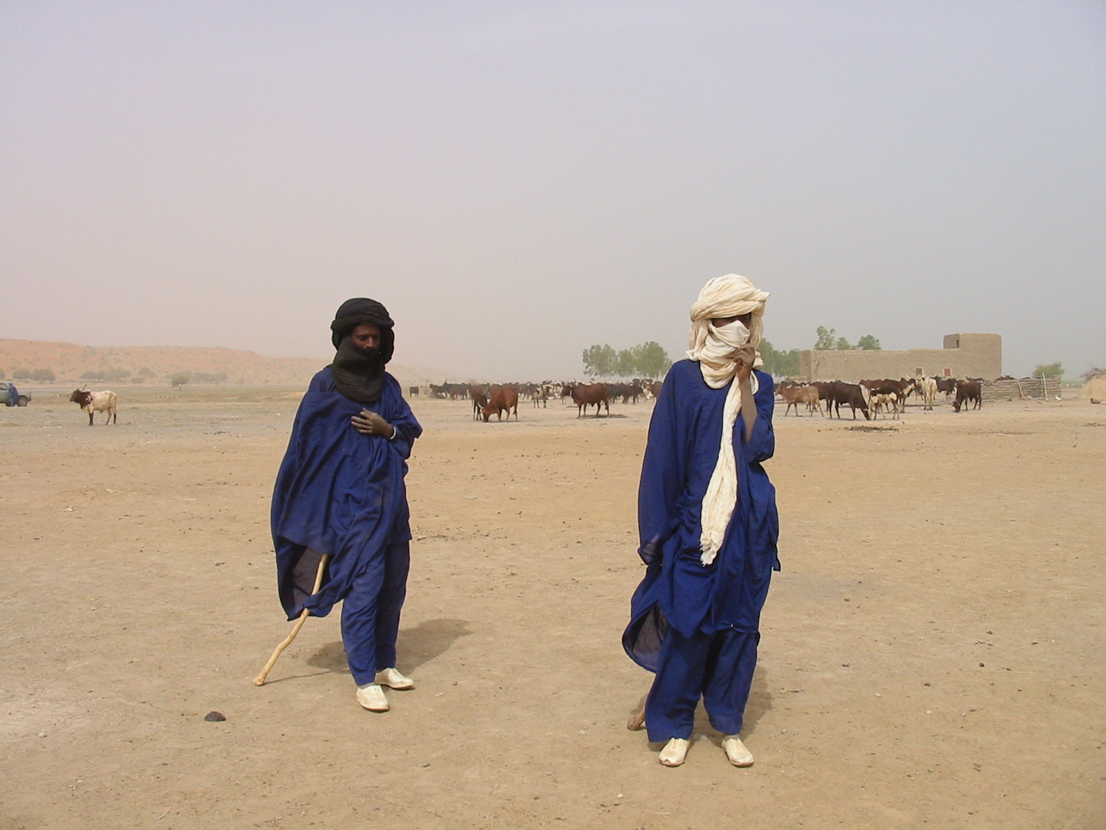 Peuls Herders in the Gourma, south of Gao, Mali.